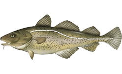 Atlantic cod, Gadus morhua